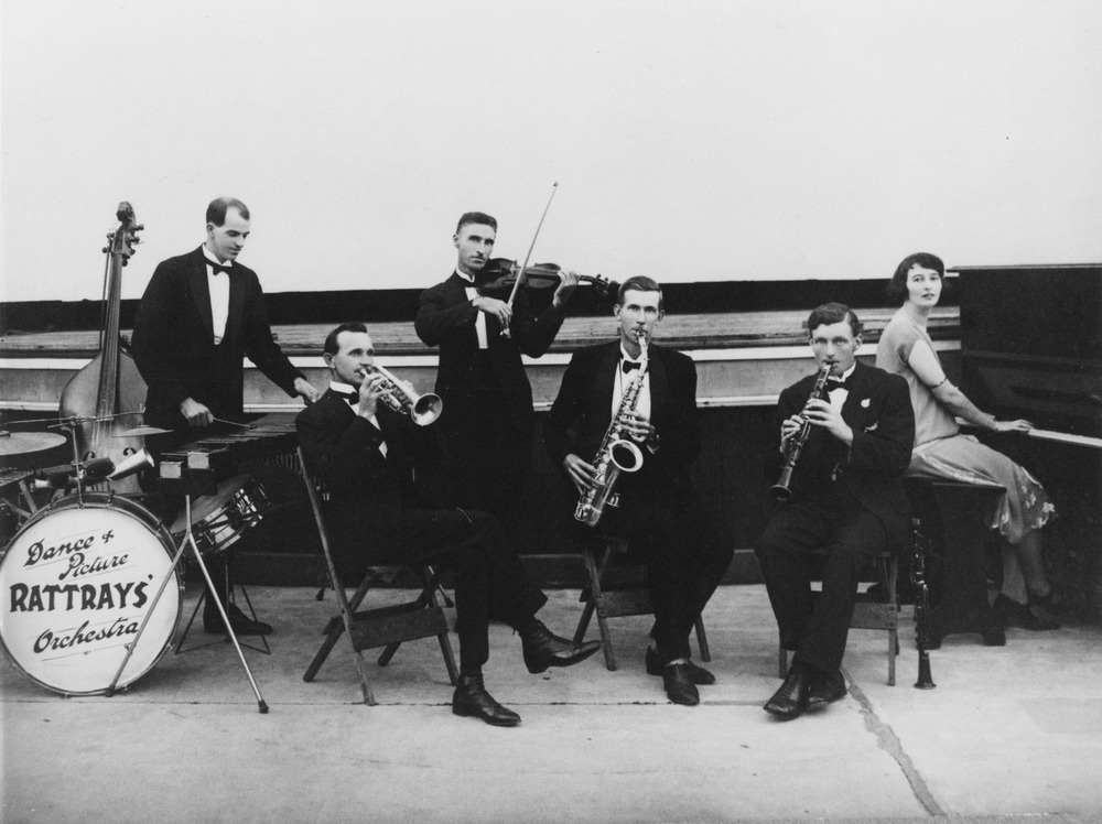 Creator: Unidentified Location: Bundaberg, Queensland Description: View this image at the State Library of Queensland: Information about State Library of Queensland’s collection